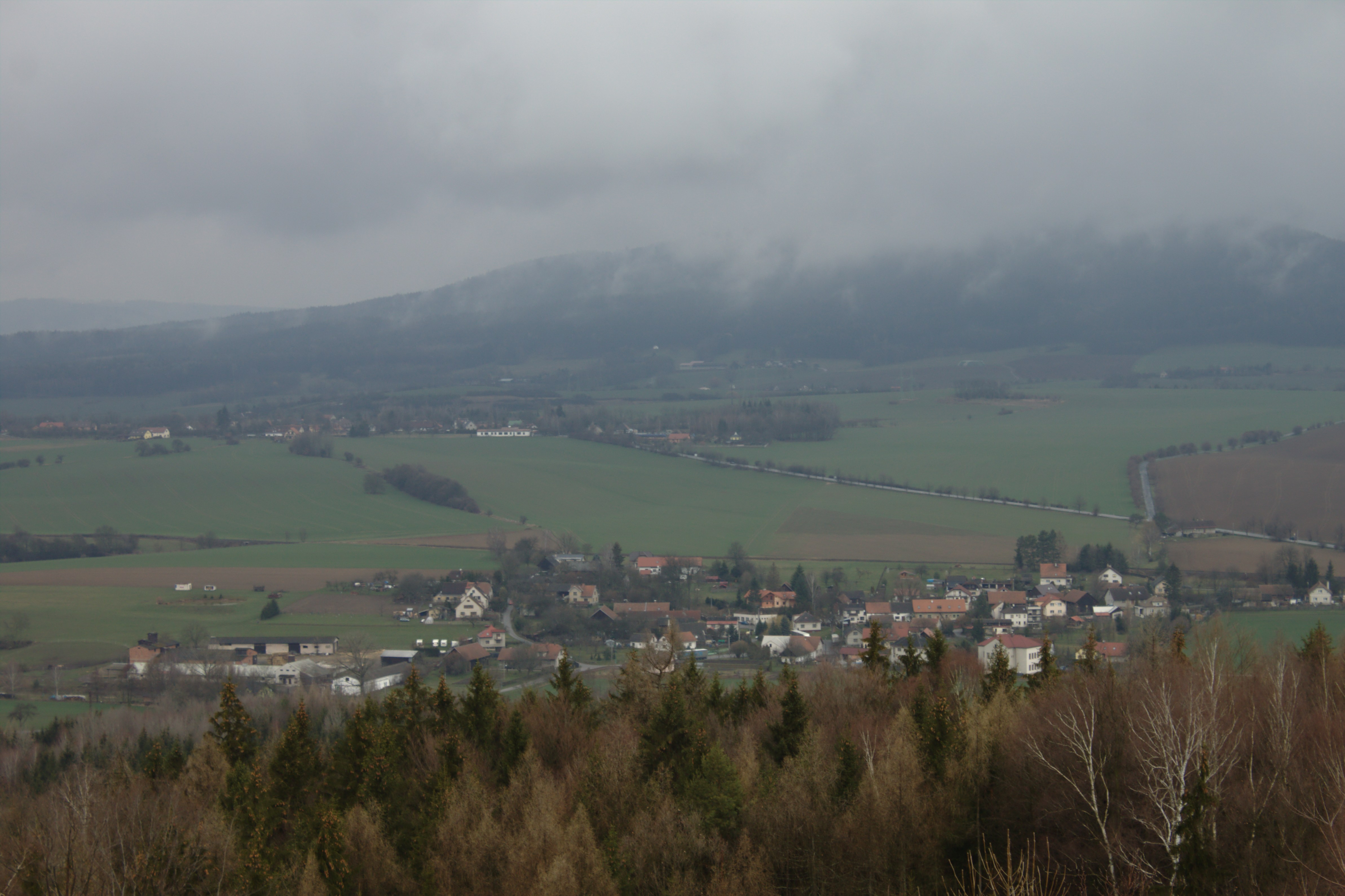 View of the village of Jinolice from Brada, Hradec Králové Region, CZ